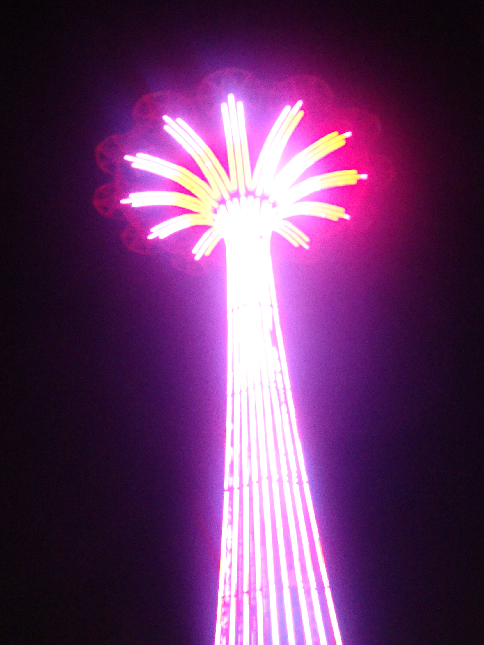 Coney Island Ride lit up at night